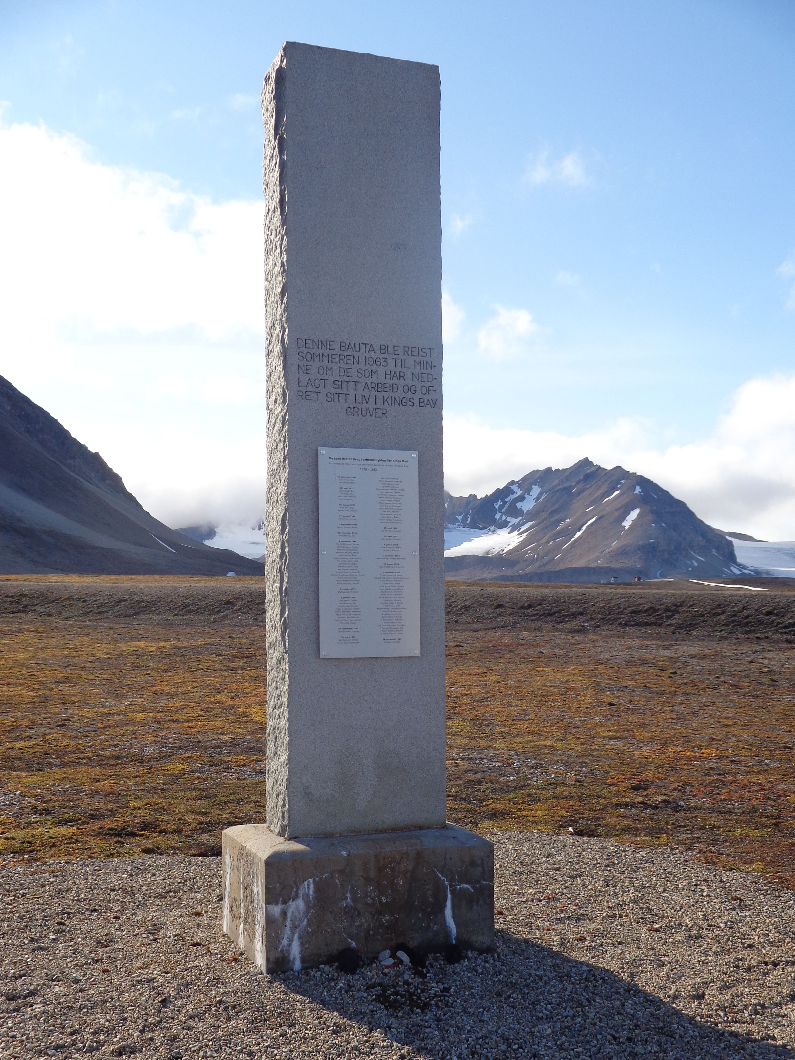 Monument to the dead of Kings Bay, Ny-Ålesund